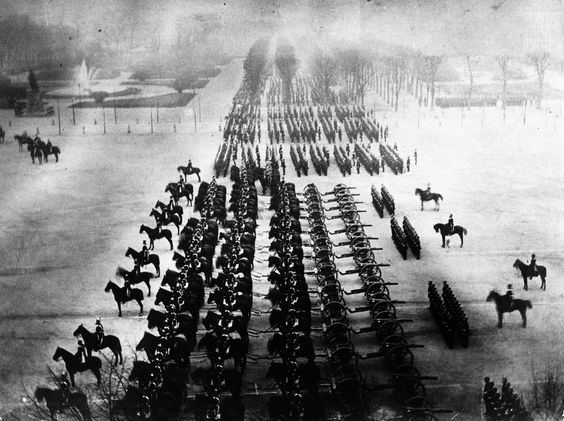 Prussians parade thru Paris March 1871.